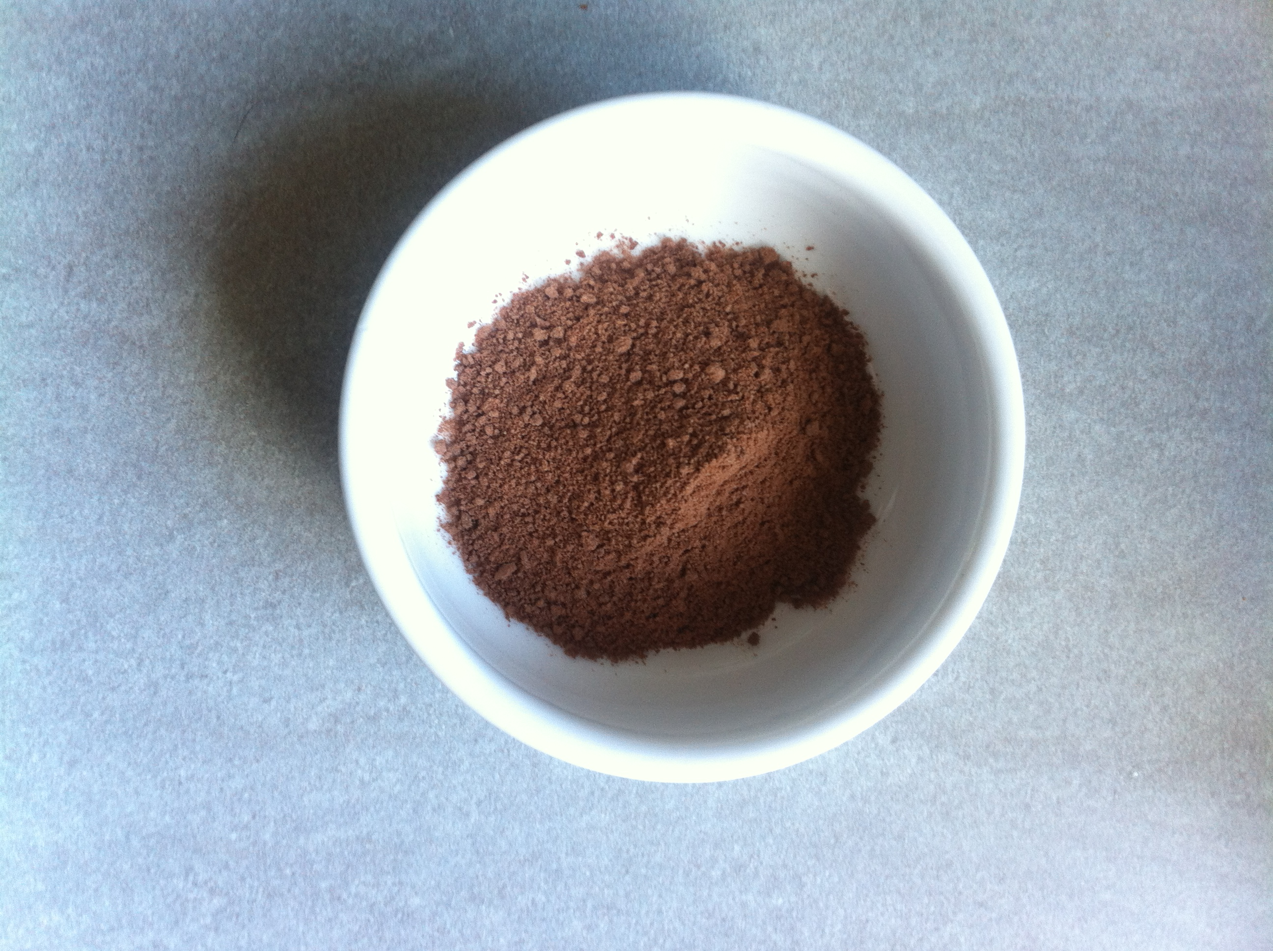 Sample of Milo from Australia 2016